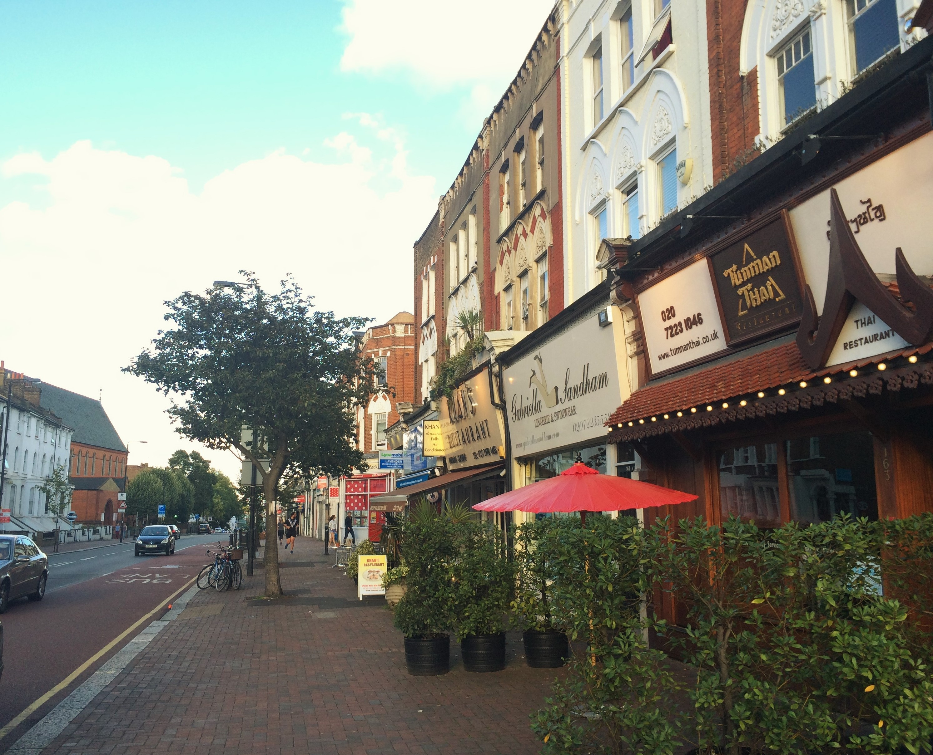 A general illustrative street view of Lavender Hill, a commercial road in Battersea, south London, UK, showing shops, restaurants and the Church of the Ascension